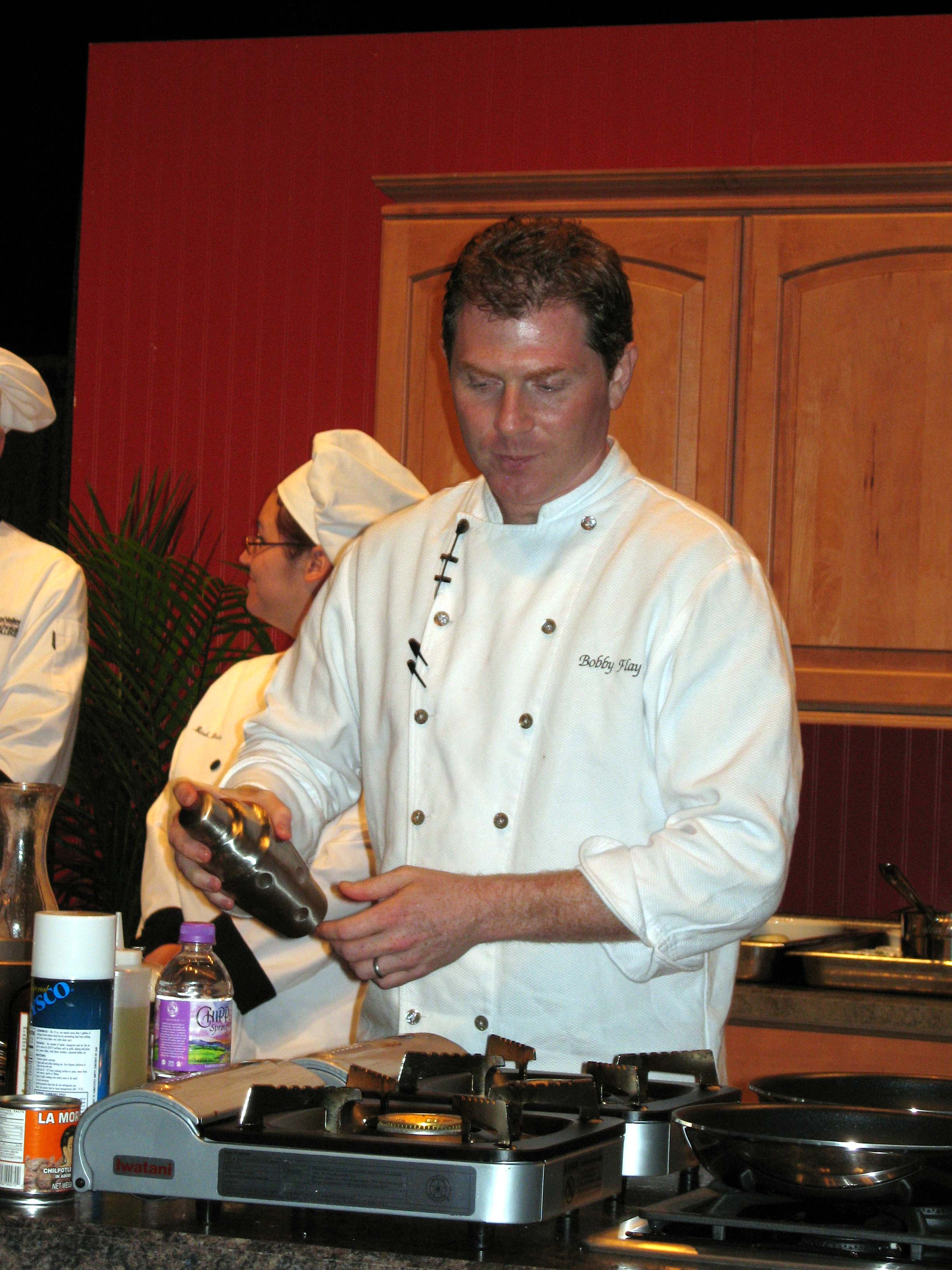 Bobby Flay performing a dabbing demonstration in Green Bay